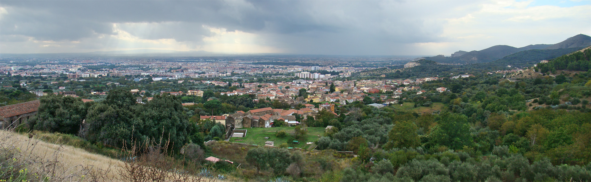 Caserta, Campania, Italy. Panoramic view from Casertavecchia.